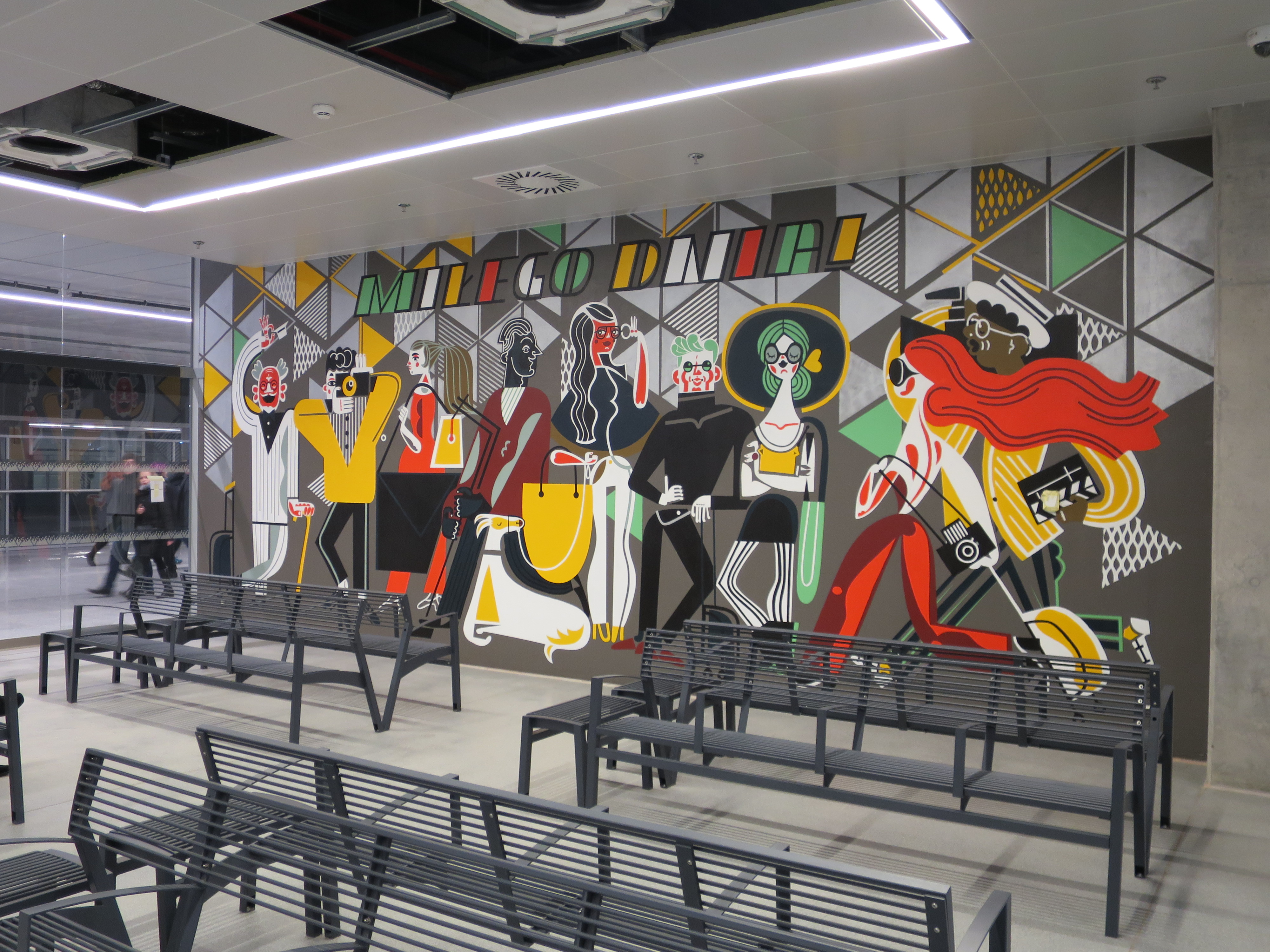 The making of this document was supported by Wikimedia Polska Association, within Wikigrant no. WG 2016-56. Łódź Fabryczna - poczekalnia